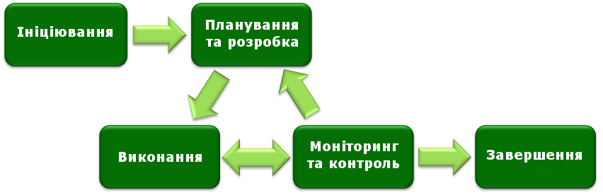 Project Management main phases